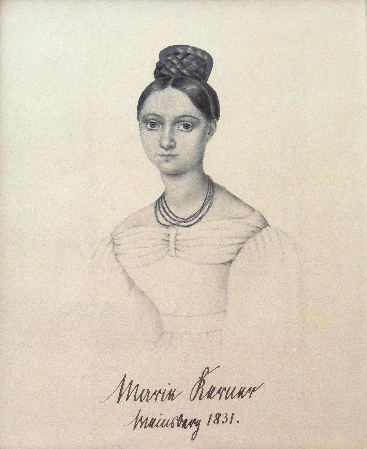 Marie Kerner at the age of 17. Lithography after drawing by Emilie Reinbeck